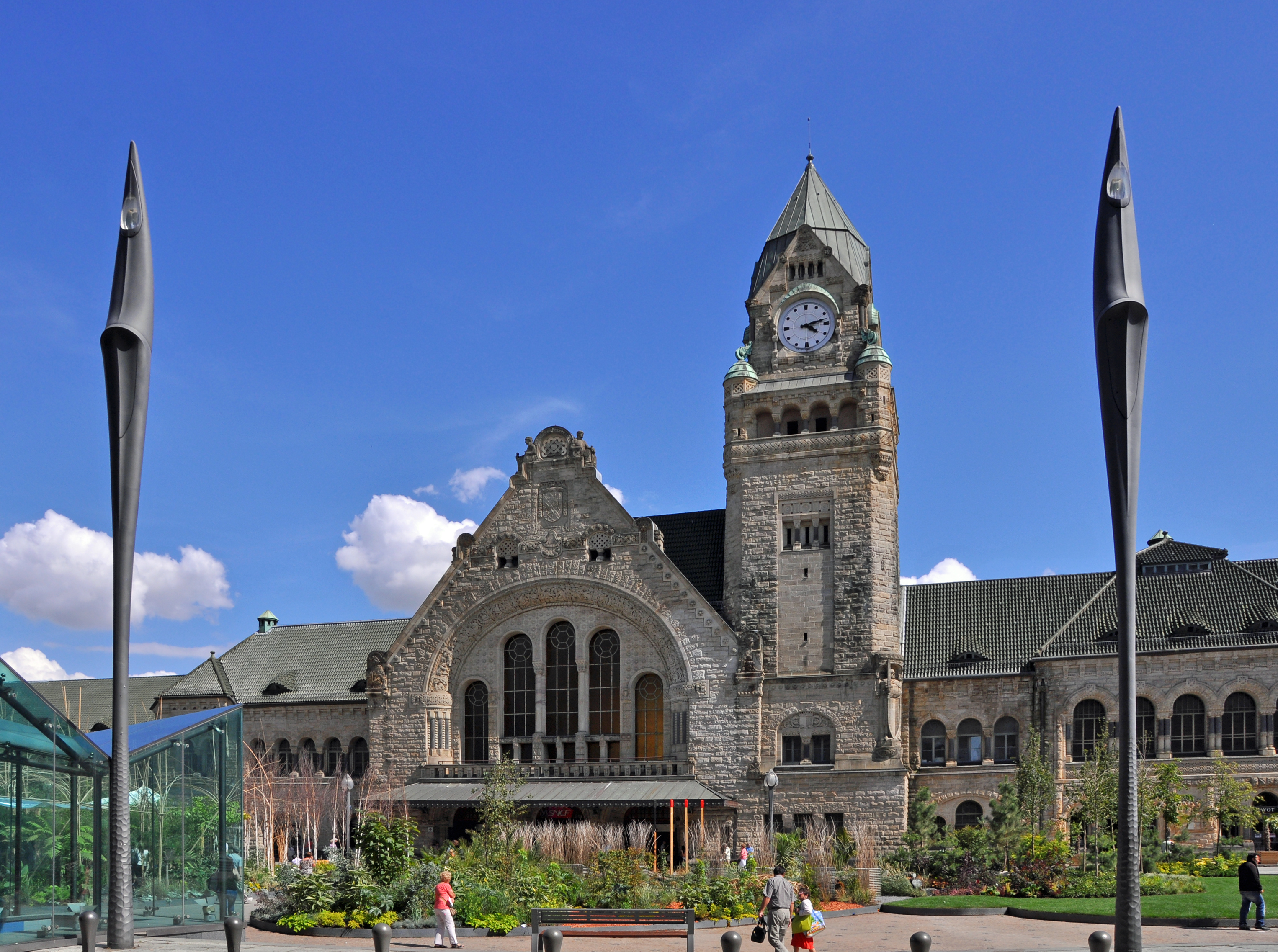 Metz (France): train station